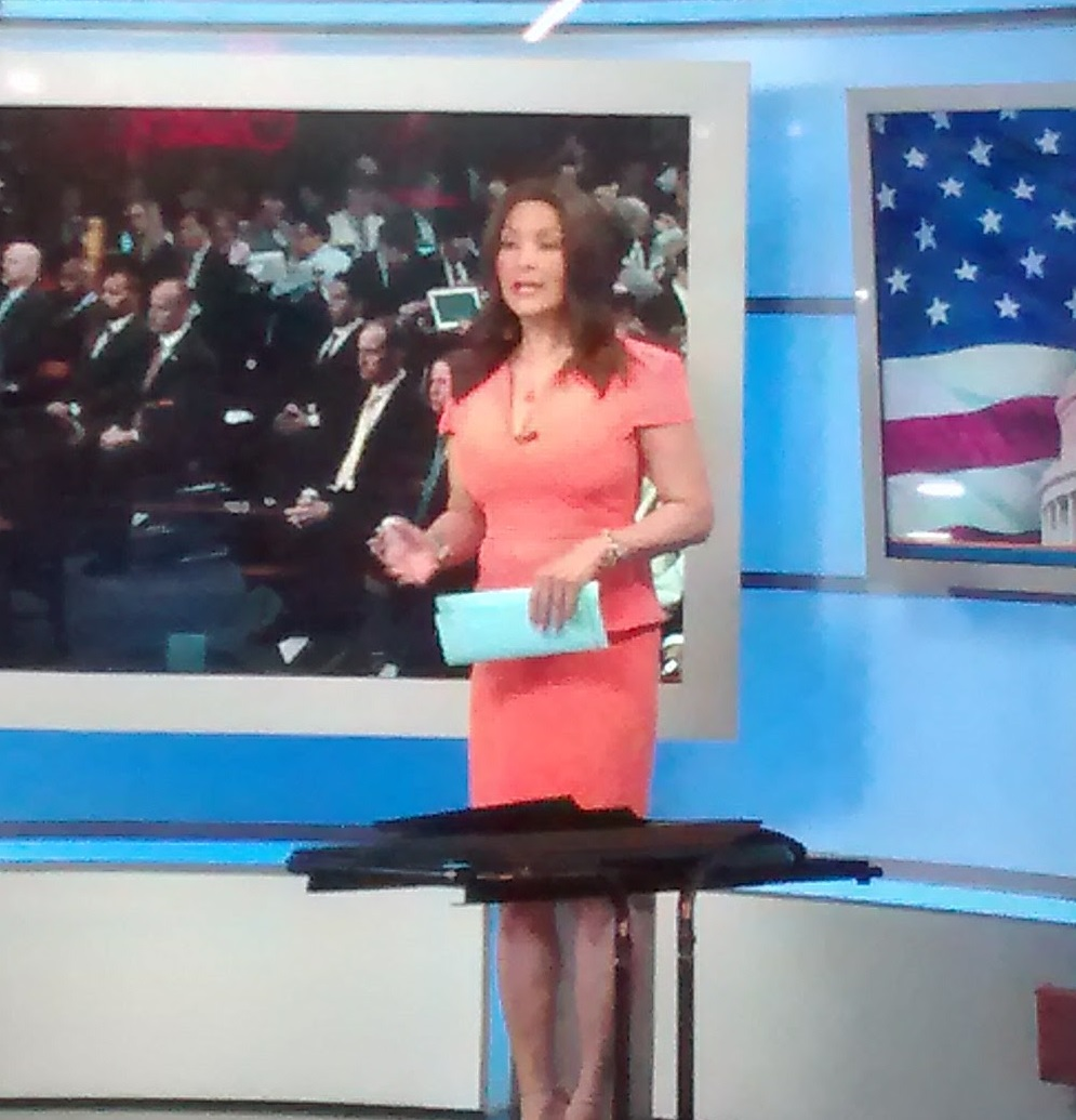 This cropped, but original photo was taken outside the ABC 7 State Street studio in downtown Chicago on June 8, 2017.